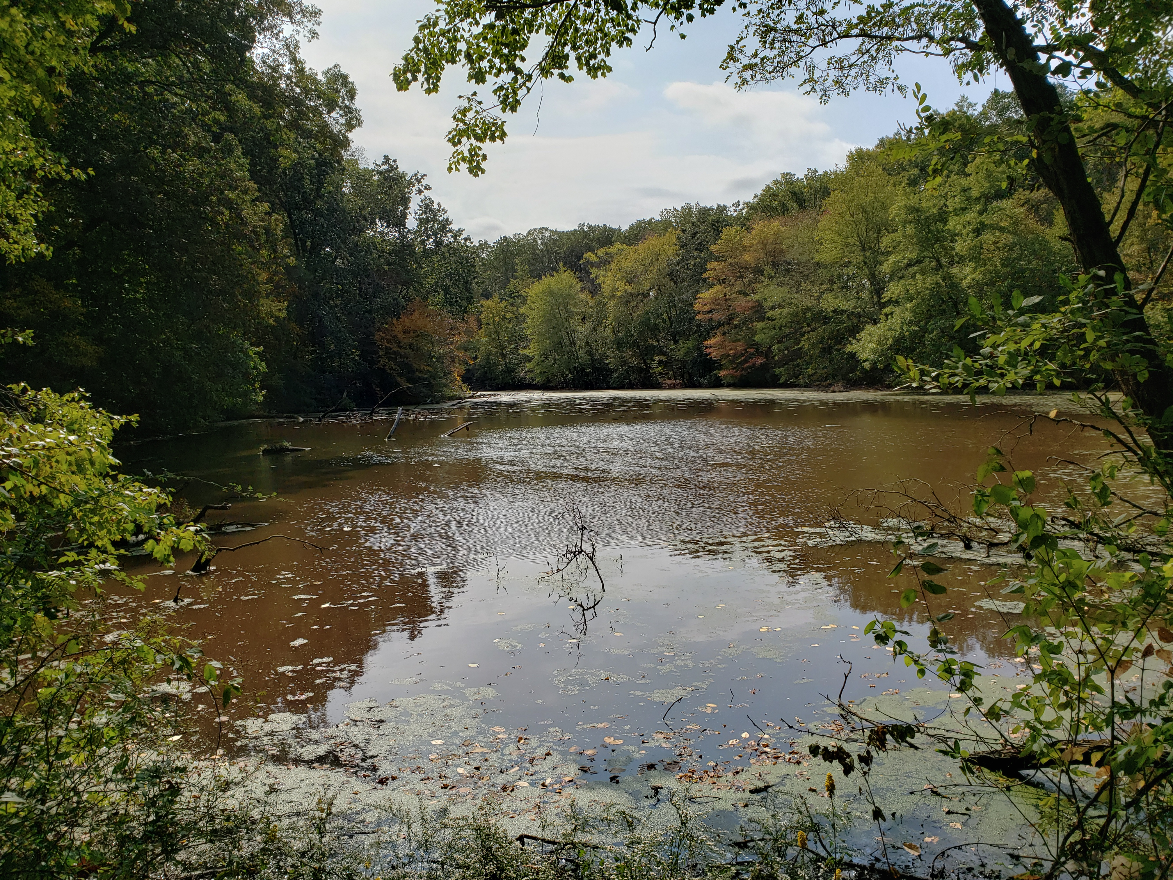 A pond in early fall in Freneau Woods Park, Aberdeen, New Jersey. Taken in October 2019, Pond Walk Trail.